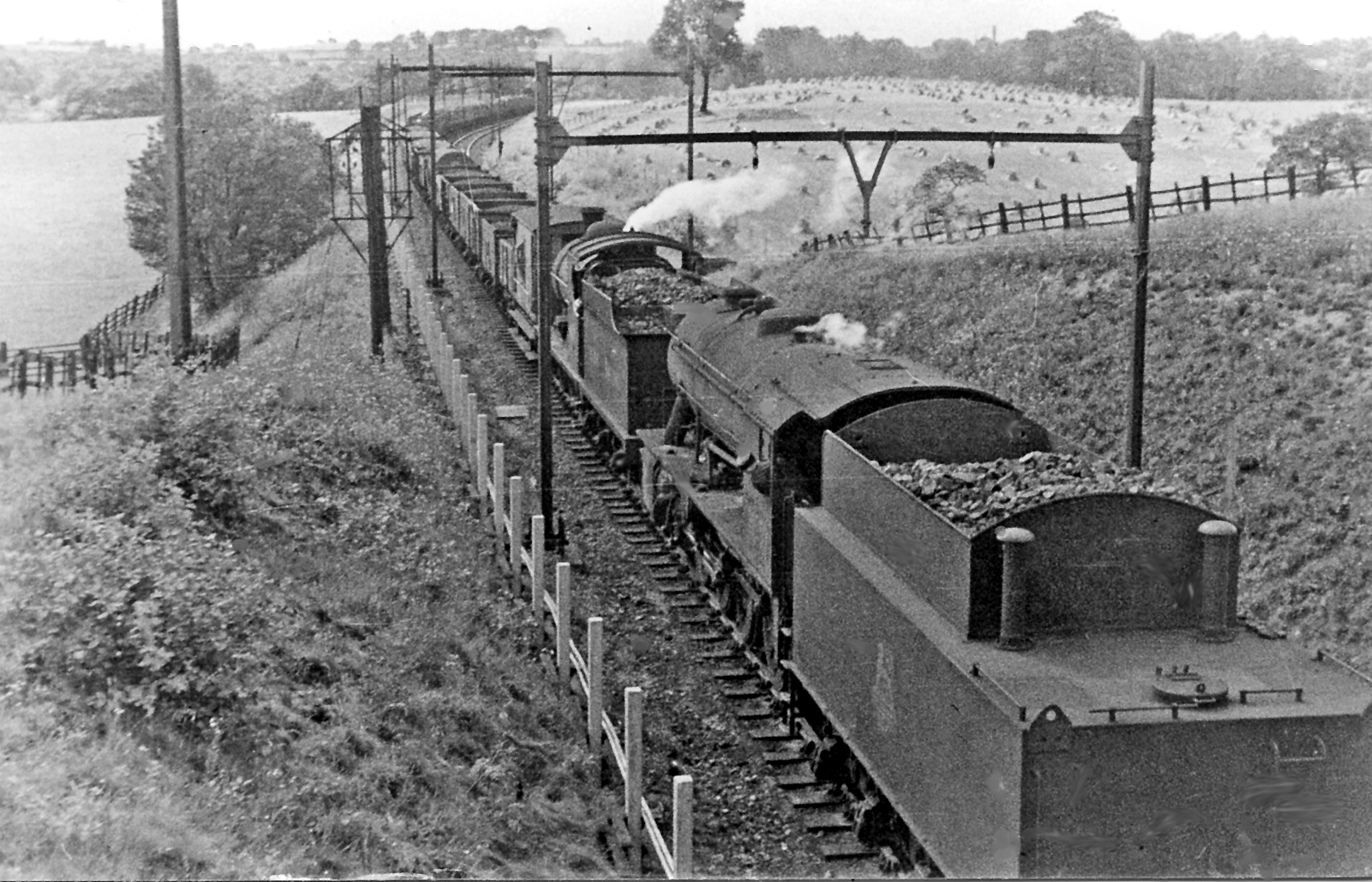 Westbound coal train on Worsborough Incline, with two banking engines. View westward, towards West Silkstone, Penistone, Woodhead Tunnel and Manchester: ex-GC Aldam Junction - West Silkstone Junction (Barnsley avoiding line). The photograph was taken a few minutes after SE3004 : Westbound coal train on Worsborough Branch, which depicted two WDs at the front end! The train needed two bankers as well - and the four engines made a fine sight and sound - ex-GC Robinson J11 No. 64374 (ex- 5245, built 7/1904, withdrawn 7/55) and ex-WD 2-8-0 No.90709. The latter was a late Vulcan build (1/45), did not work in England before being shipped to France early in 1945, worked in Belgium and was returned in 1947, being taken on loan by the LNER in 10/47 at Mexborough; it worked at various Depots on BR(ER) (later as No. 90709) and lasted until 4/66.